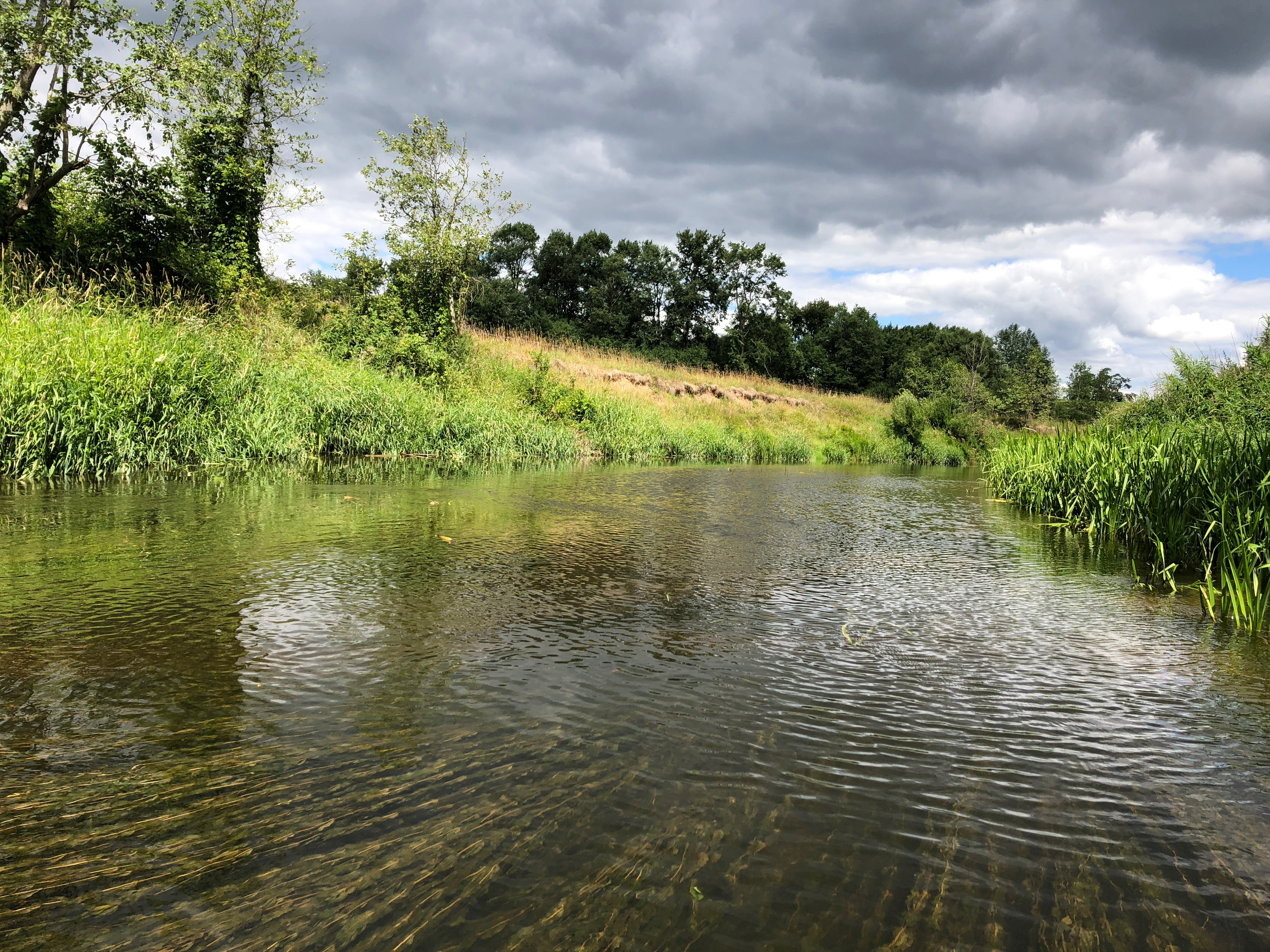 Minija river at Mardosai